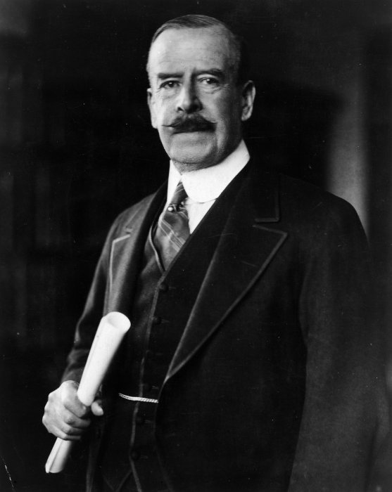 Official portrait of Sir Joseph Ward taken for the 1928 election campaign.